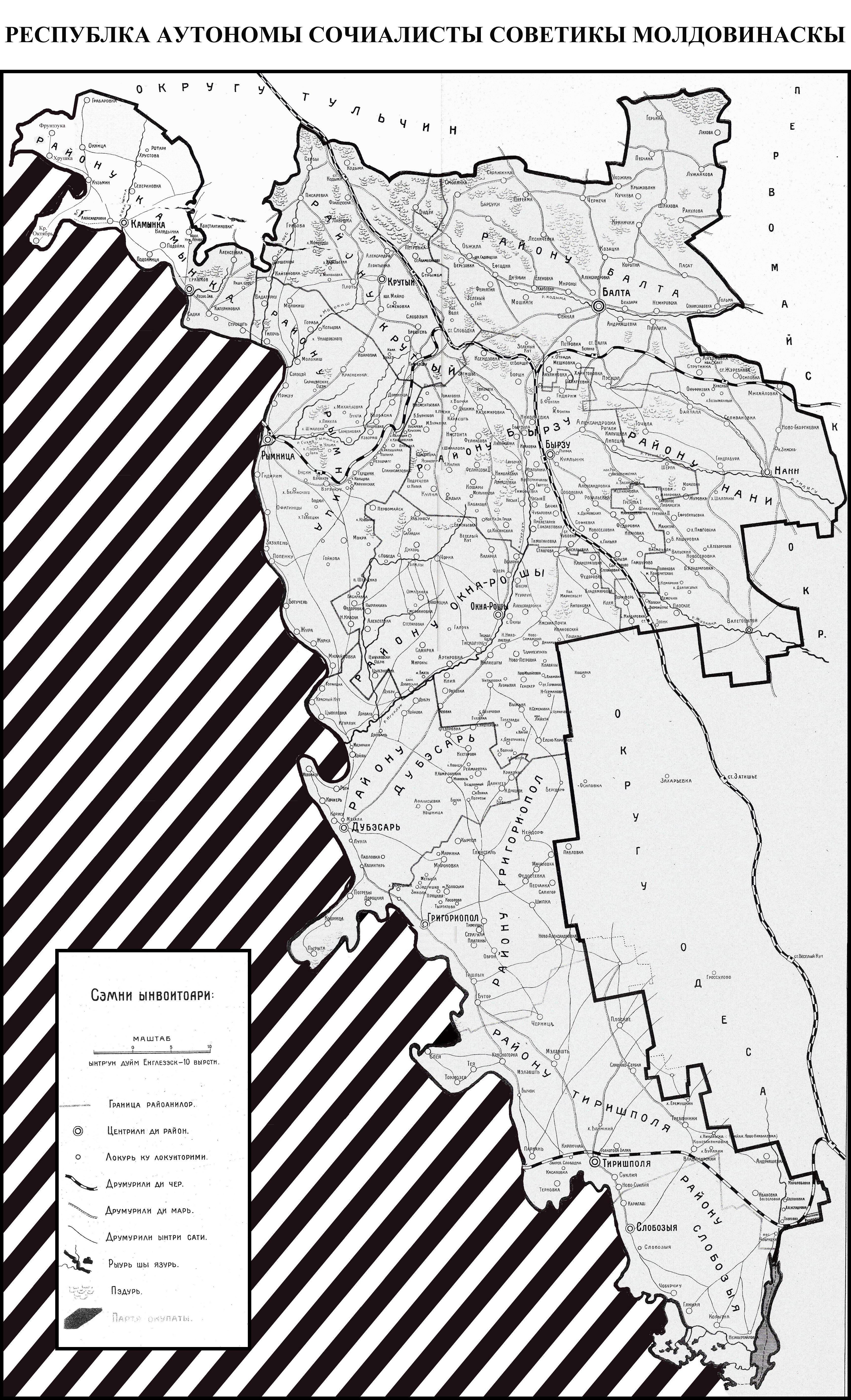 Map of the Moldavian ASSR. Written in Romanian with cyrillic alphabet (the so-called "Moldavian").